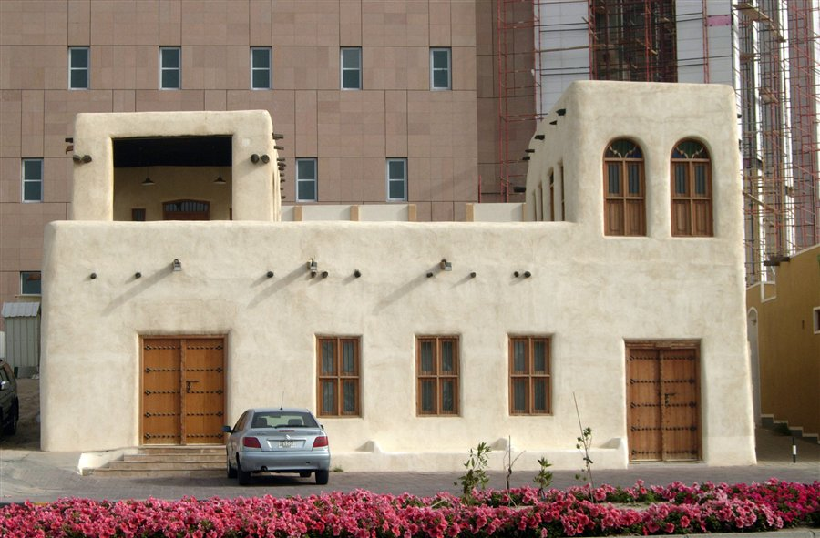 an old kuwaiti house